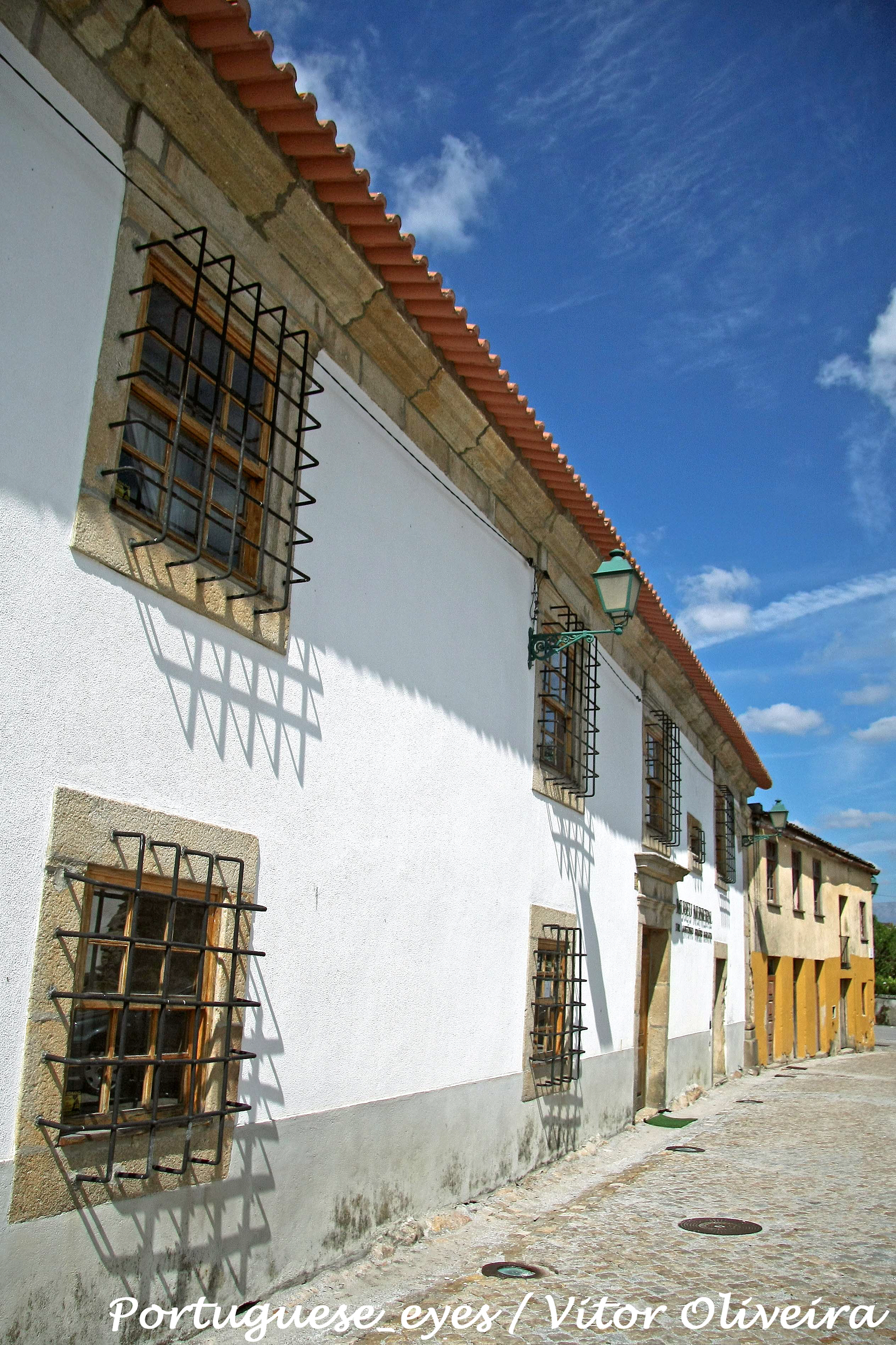 Museu Municipal Dr. António Simões Saraiva See where this picture was taken. [?]